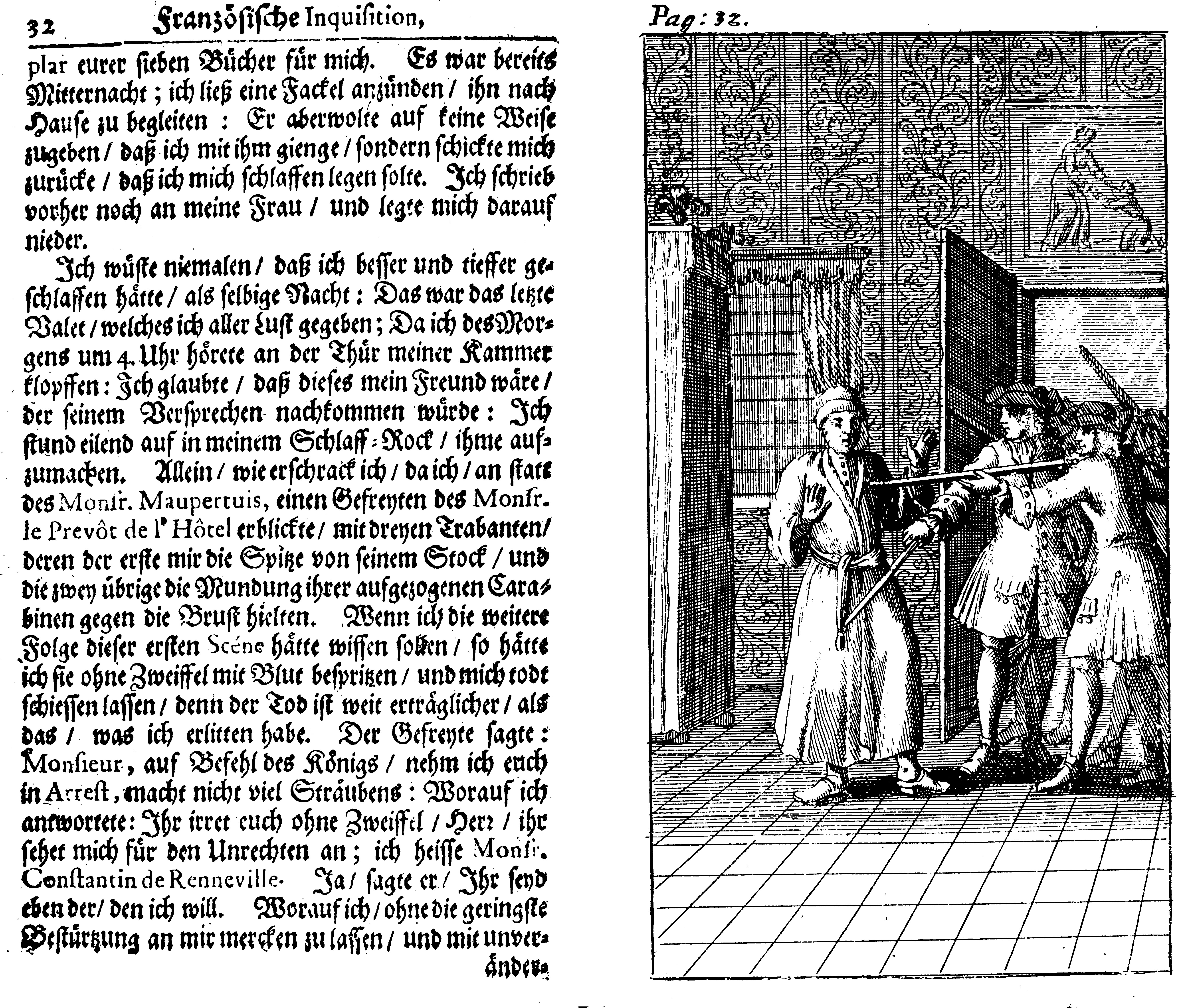 The image shows the scene of the author's imprisonment. Representatives of the crown have arrived early in the morning, he is abducted at blank point.